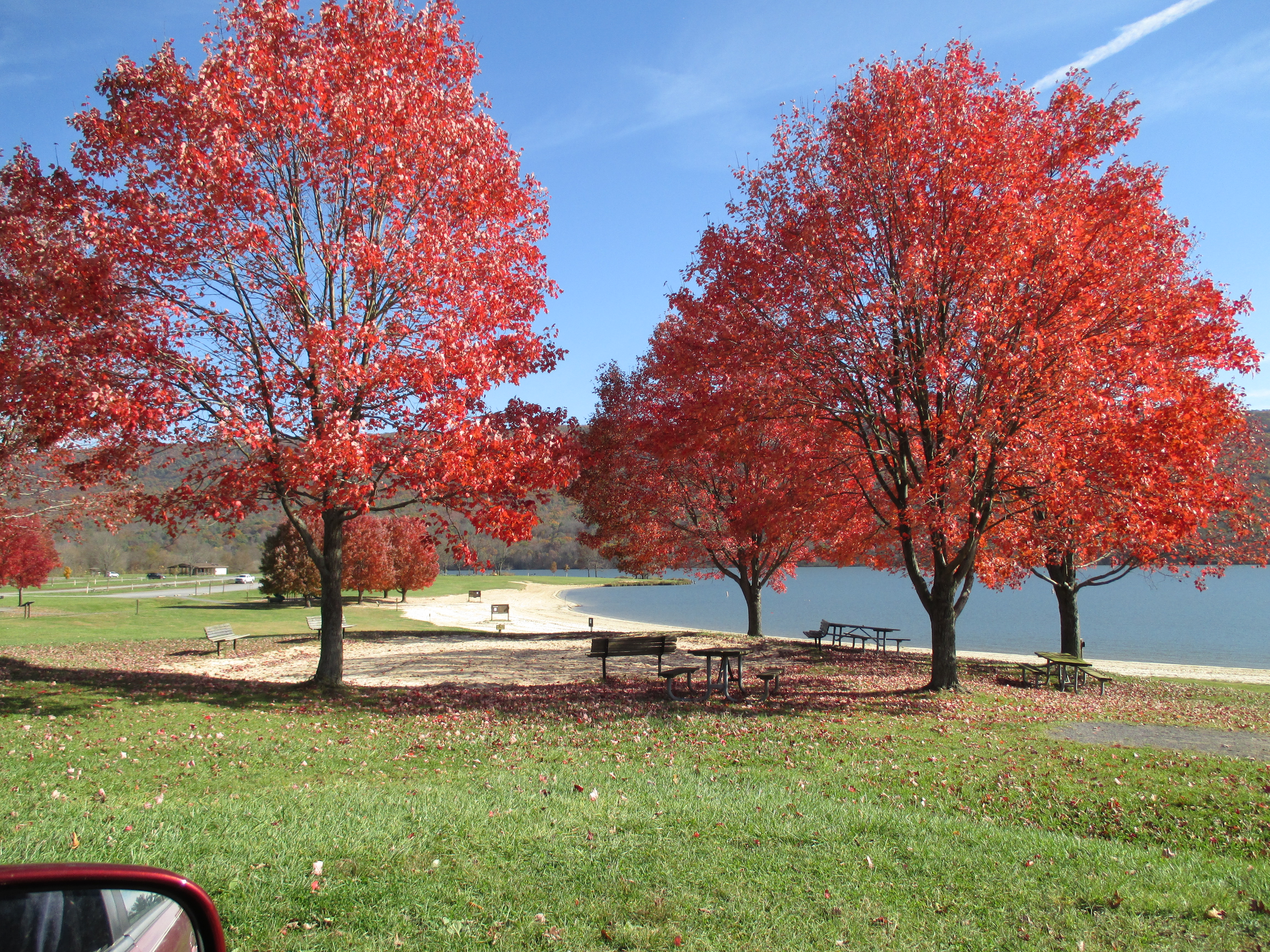 Bald Eagle State Park in October